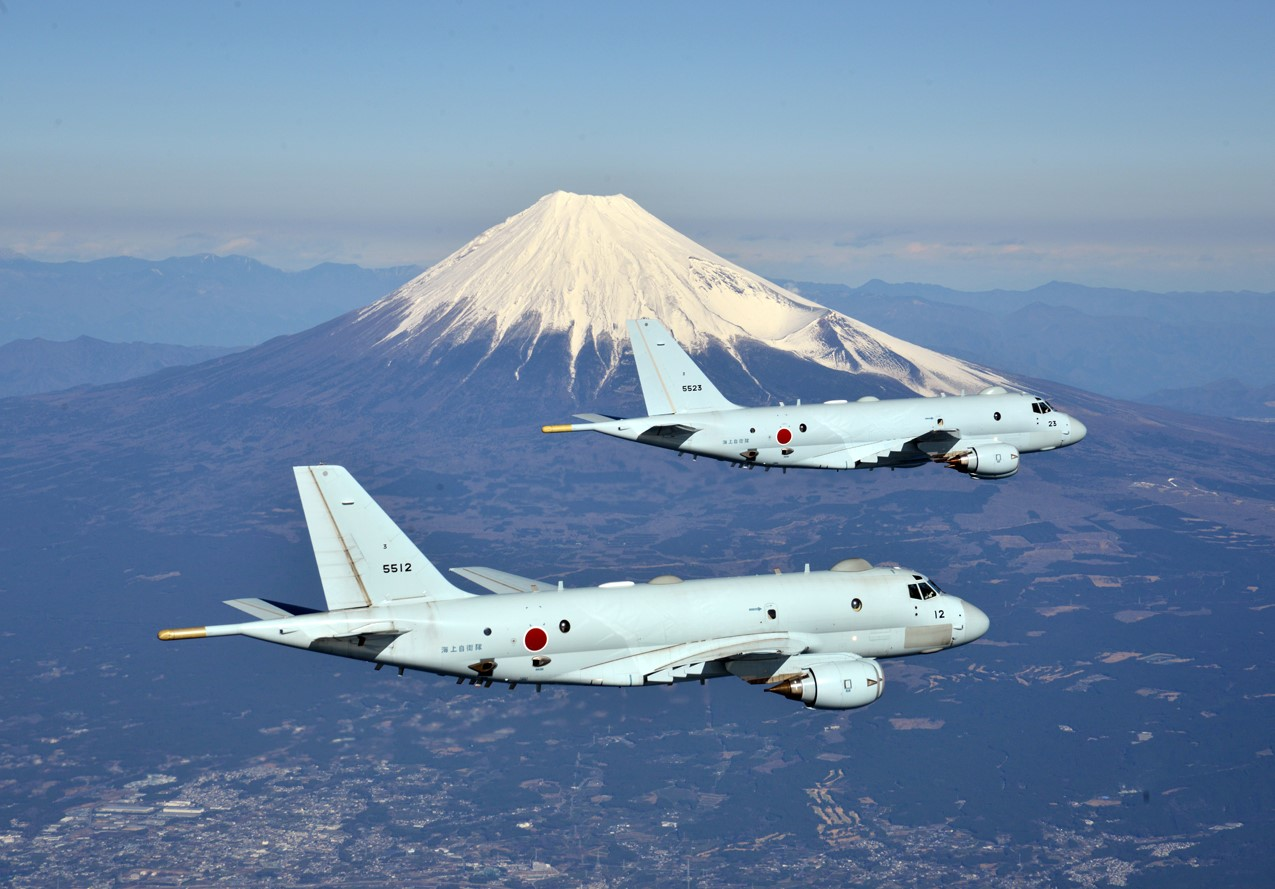 JMSDF P-1 Maritime Patrol Aircraft With Mt.FUJI